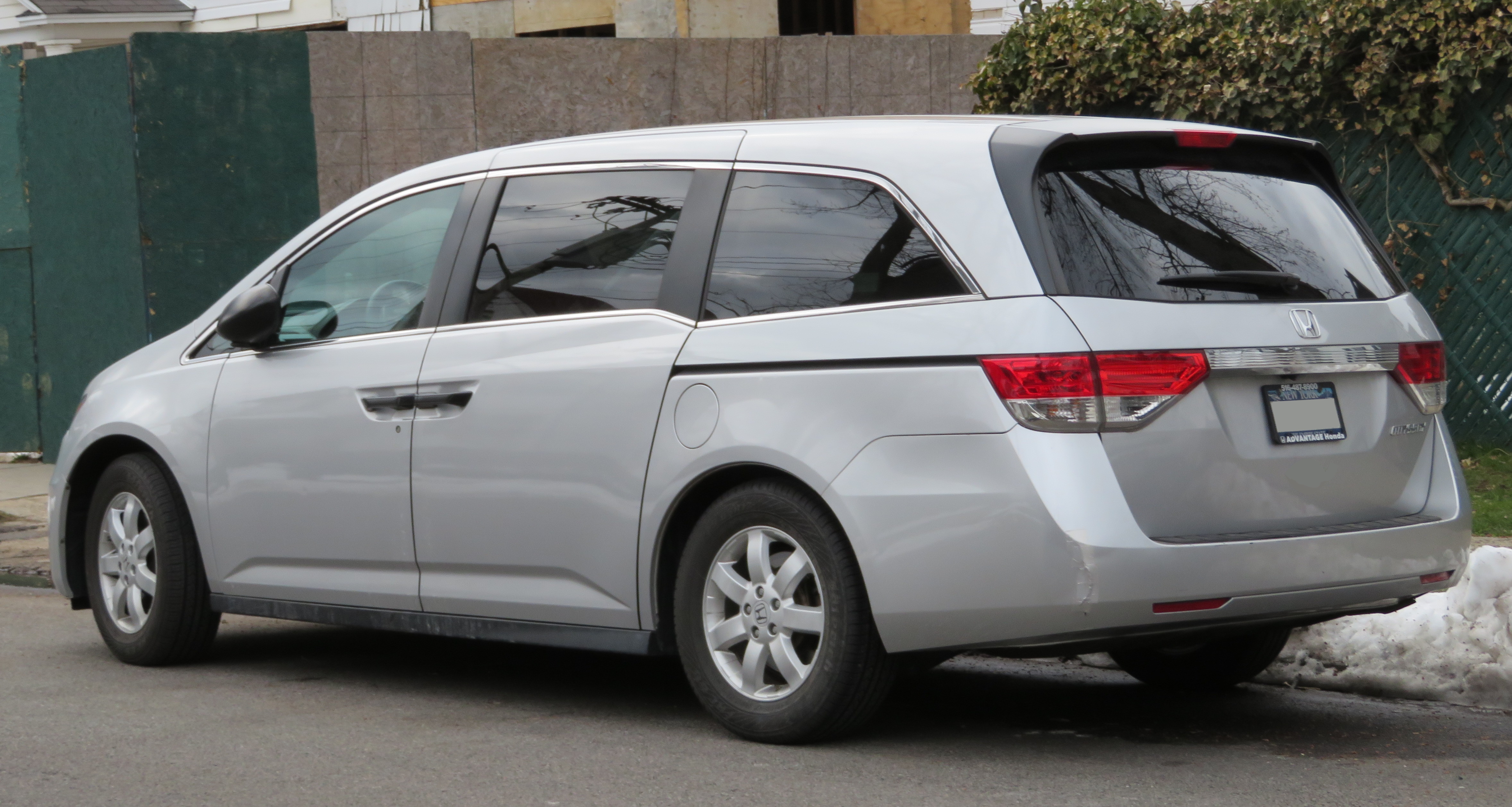 Photographed in Queens(Bayside), New York